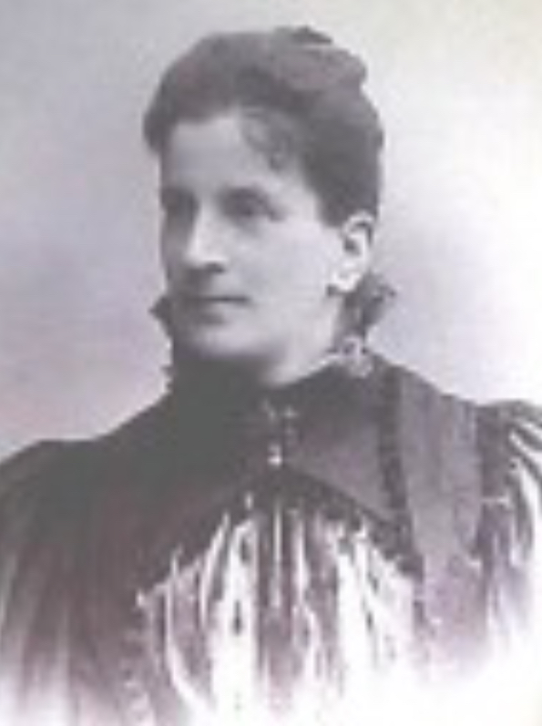 Bertha Kupelwieser